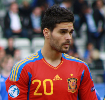 Juan Manuel Mata (#10), Adrián López Álvarez (#7), and Alberto Botía (#20), playing for the Spanish Under-21 team in 2011